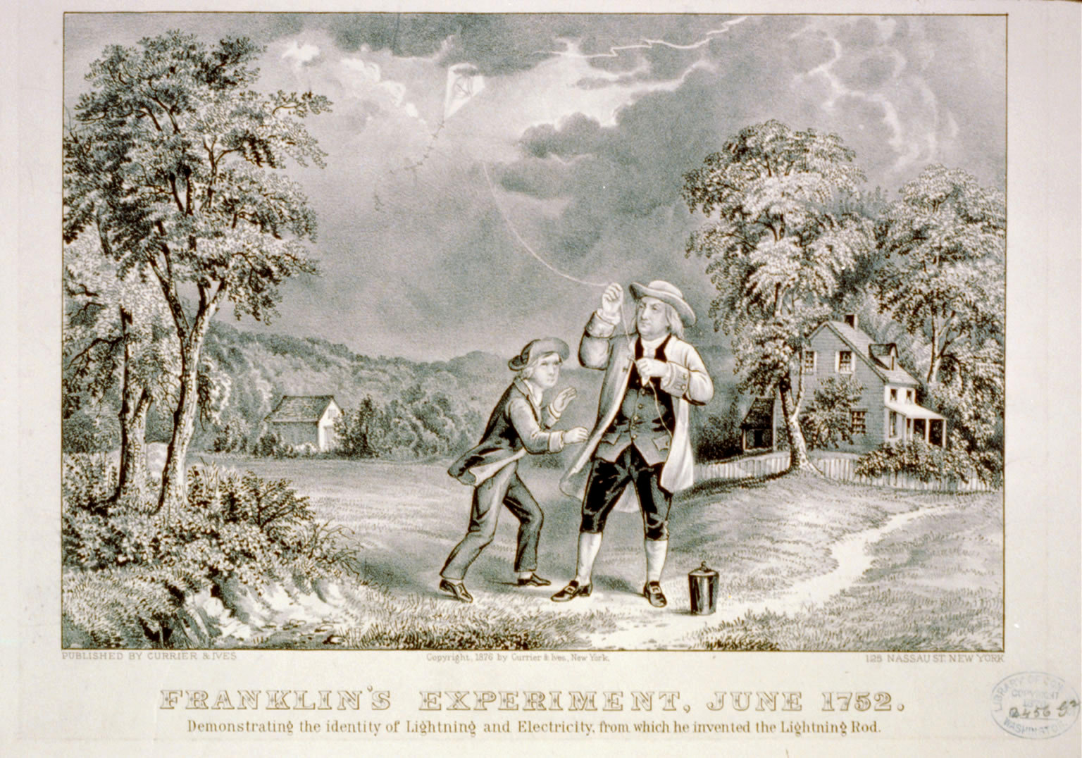 Franklin's Experiment, June 1752Demonstrating the identity of Lightning and Electricity, from which he invented the Lightning Rod.